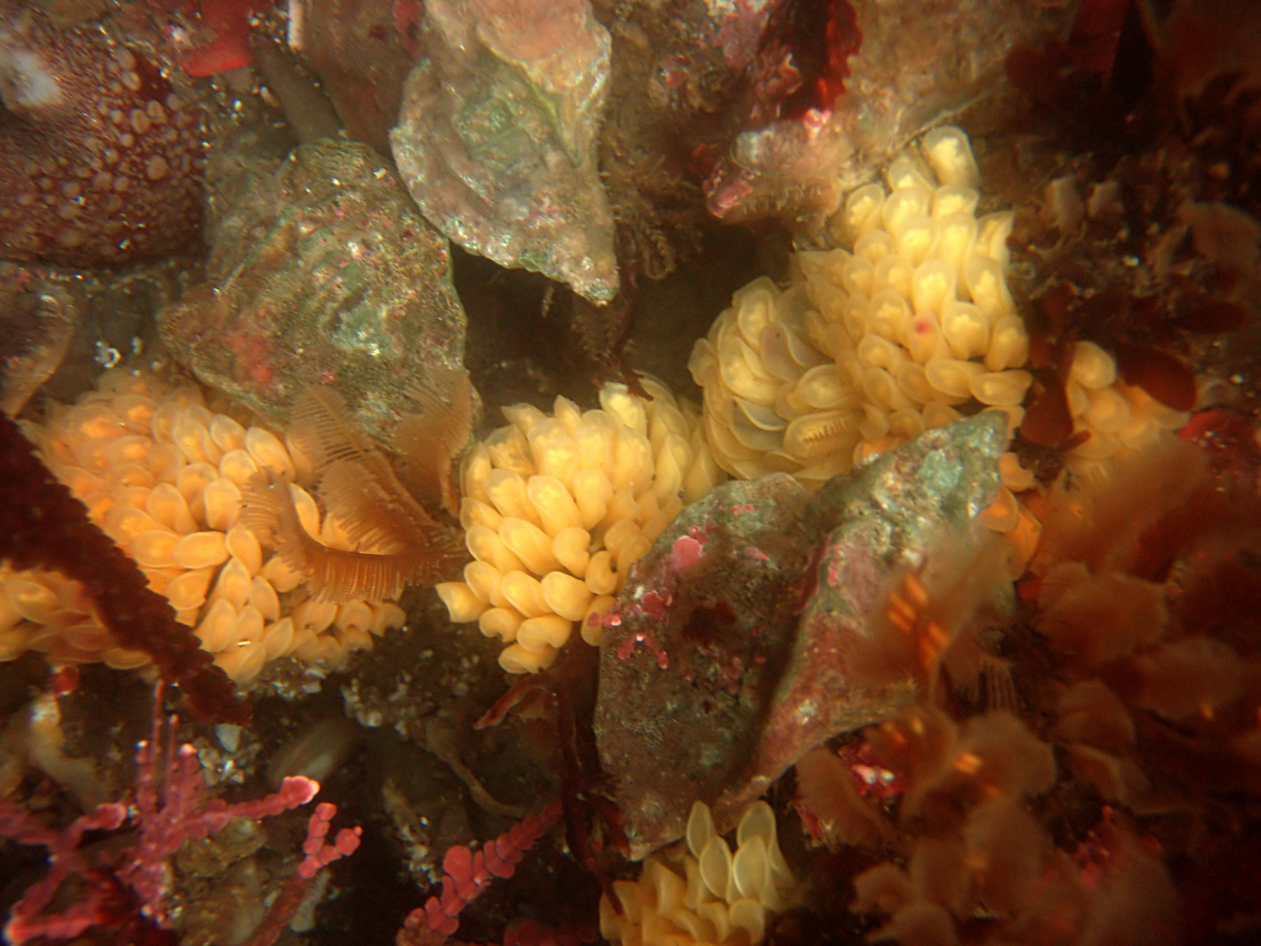 Egg capsules from Kelleti's whelk(?),Pteropurpura trialata ; the little whitish blobs inside each one are the eggs